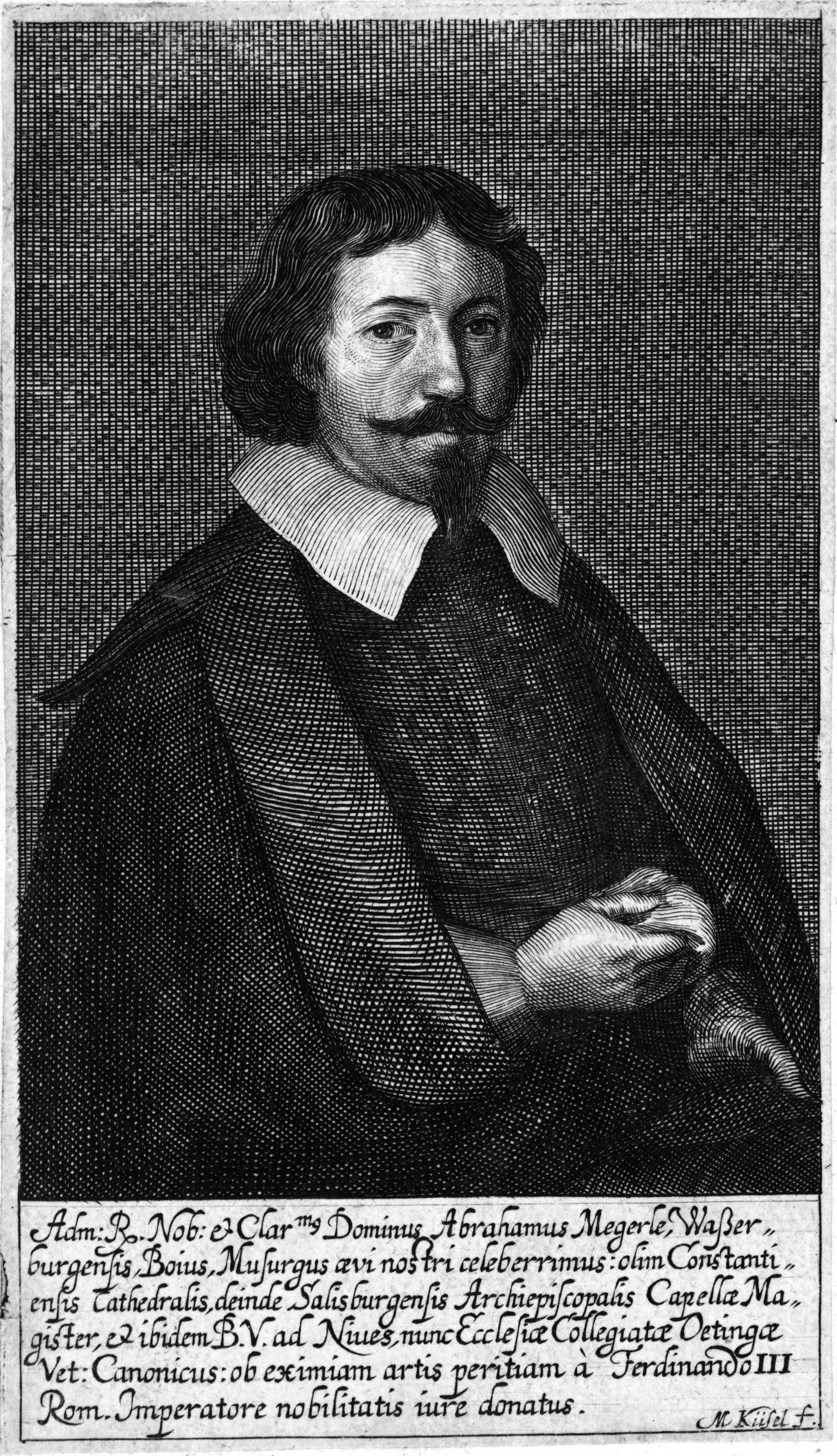 Depicted person: Abraham Megerle